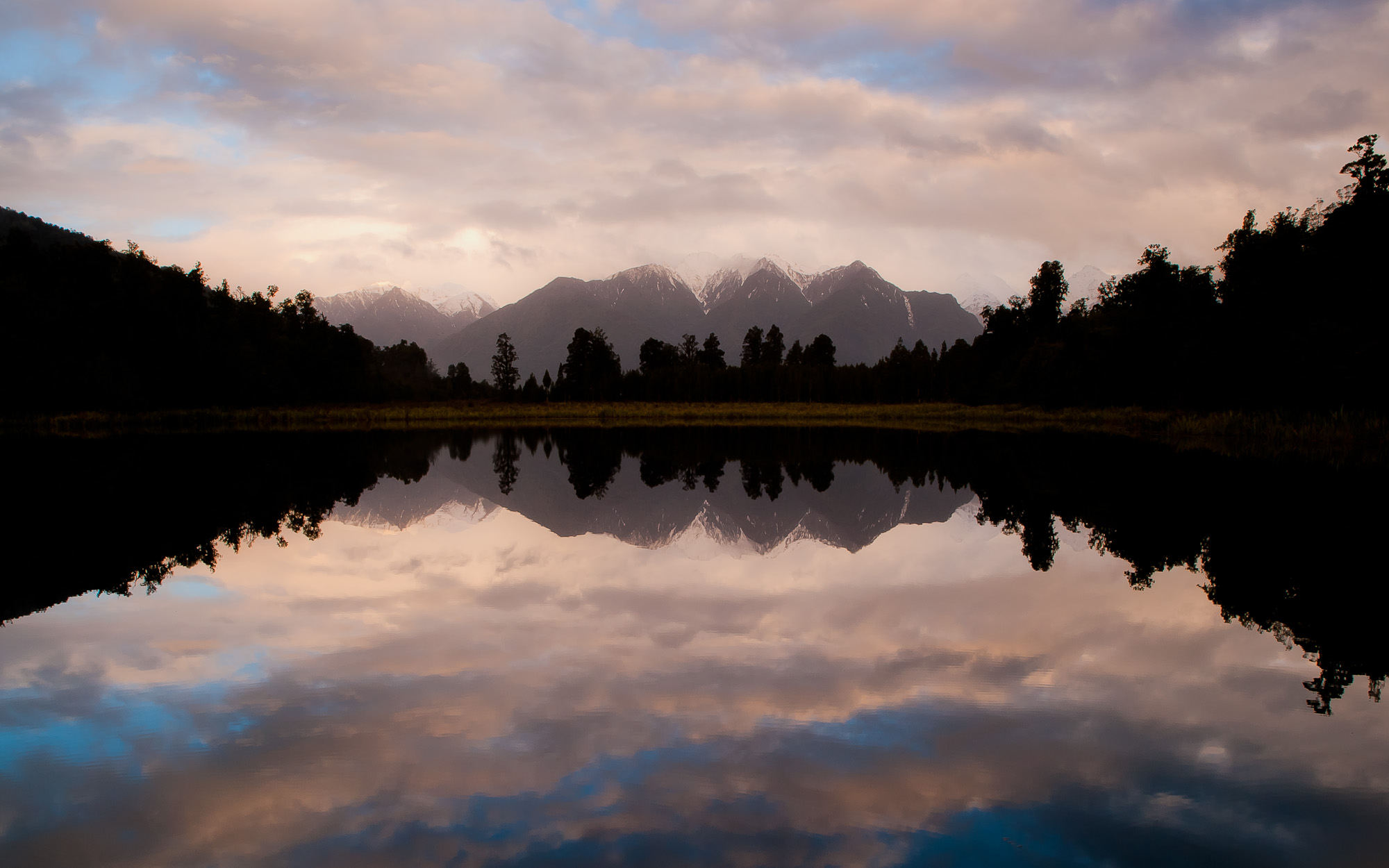 Lake Matheson (New Zealand) just after the sunset